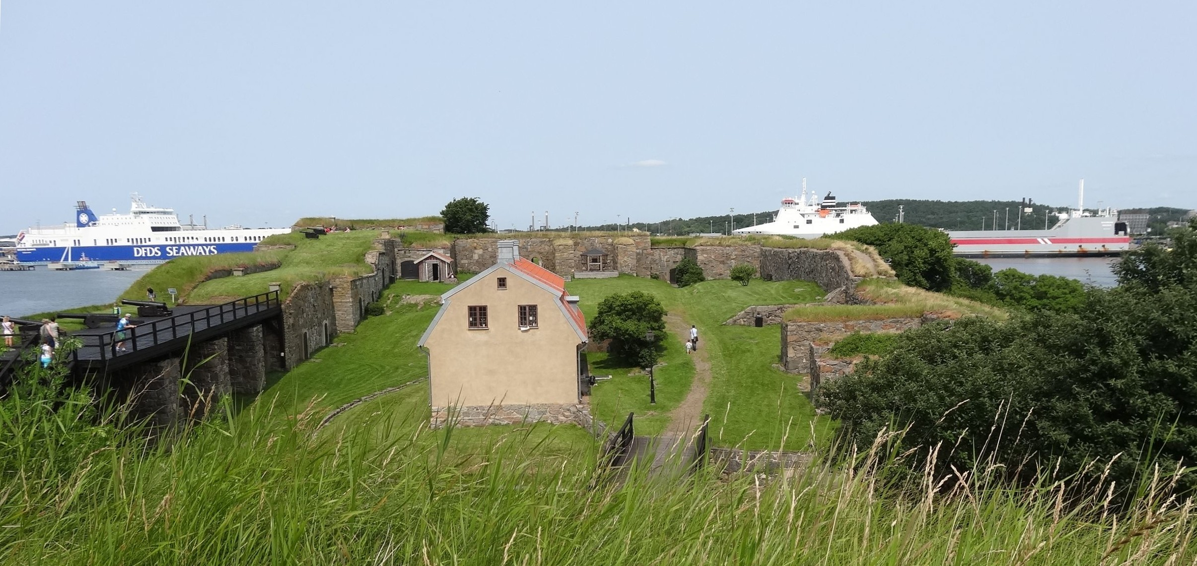 The hornwork on fortess Nya Älvsborg, Sweden. View towards north.